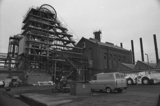 Haig Colliery The head gear nearest survives but the other has gone. Both engine houses and the intervening power house do survive. The preservation project seems to have undergone a change of direction and abandoned plans for a colliery railway preservation project.